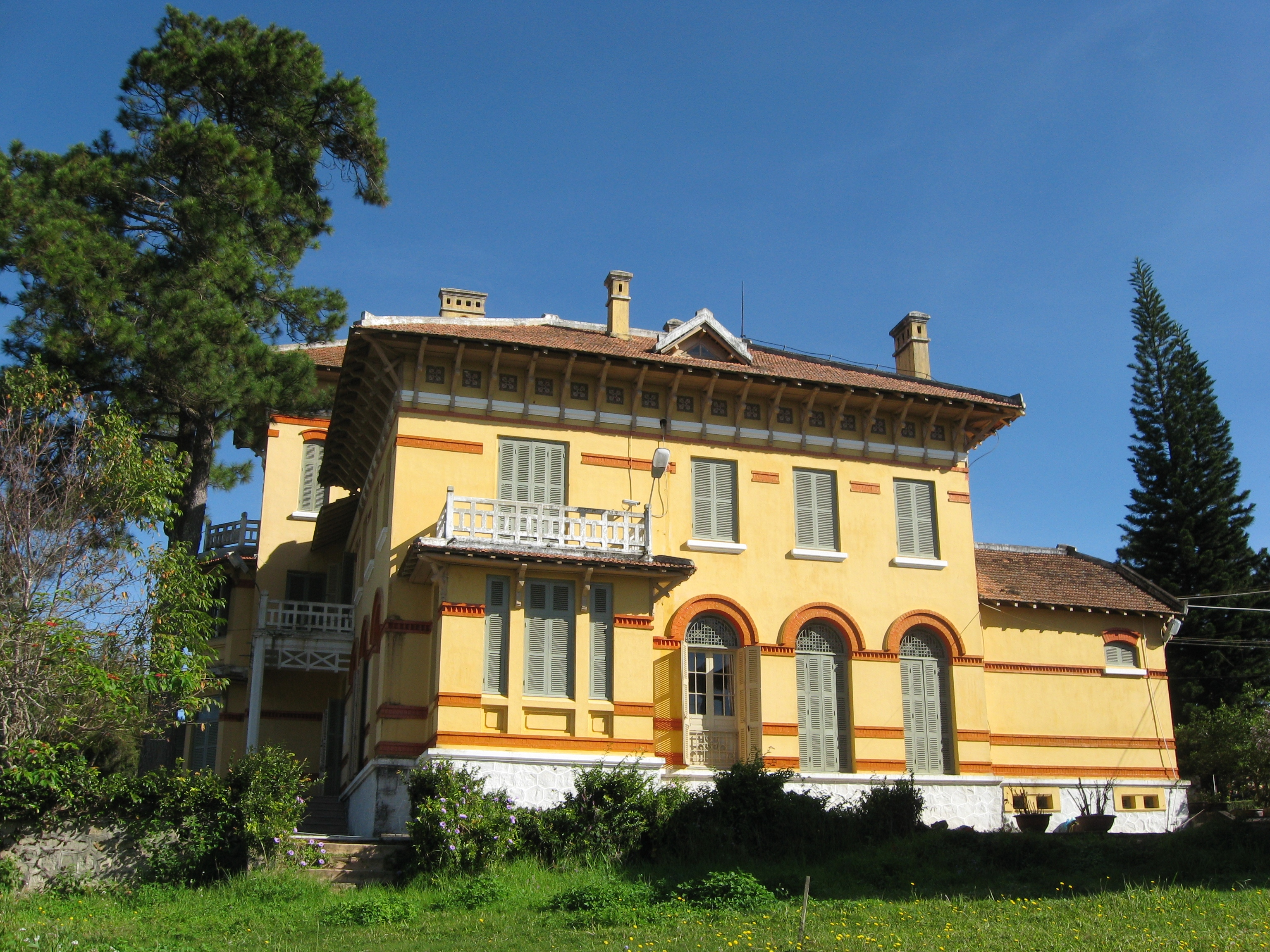 Nguyen Huu Hao Villa